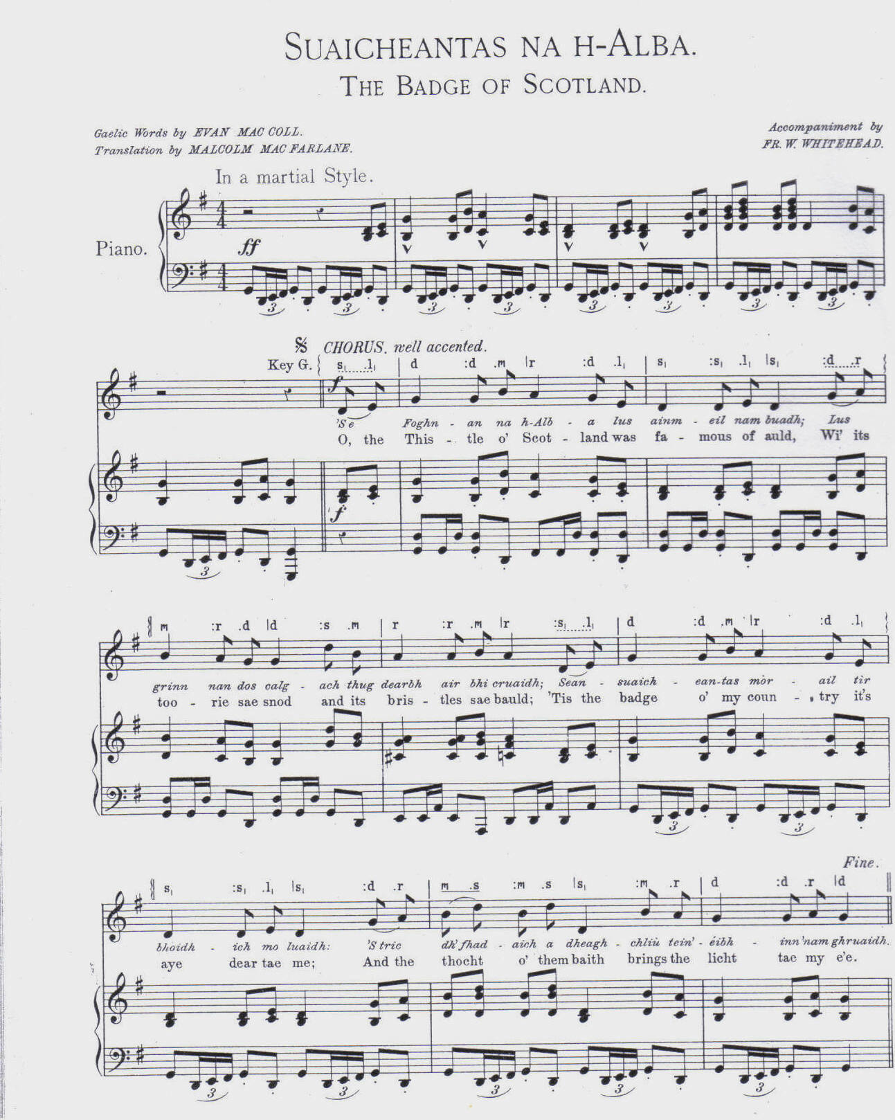 Photocopy of book in Mitchell Library, Glasgow. Book purchased by library in December 1902. The staff have given permission to copy and publicise this work.